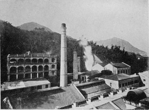 Images of Wan Chai Power Station cropped from "Twentieth century impressions of Hong-kong, Shanghai, and other Treaty Ports of China"